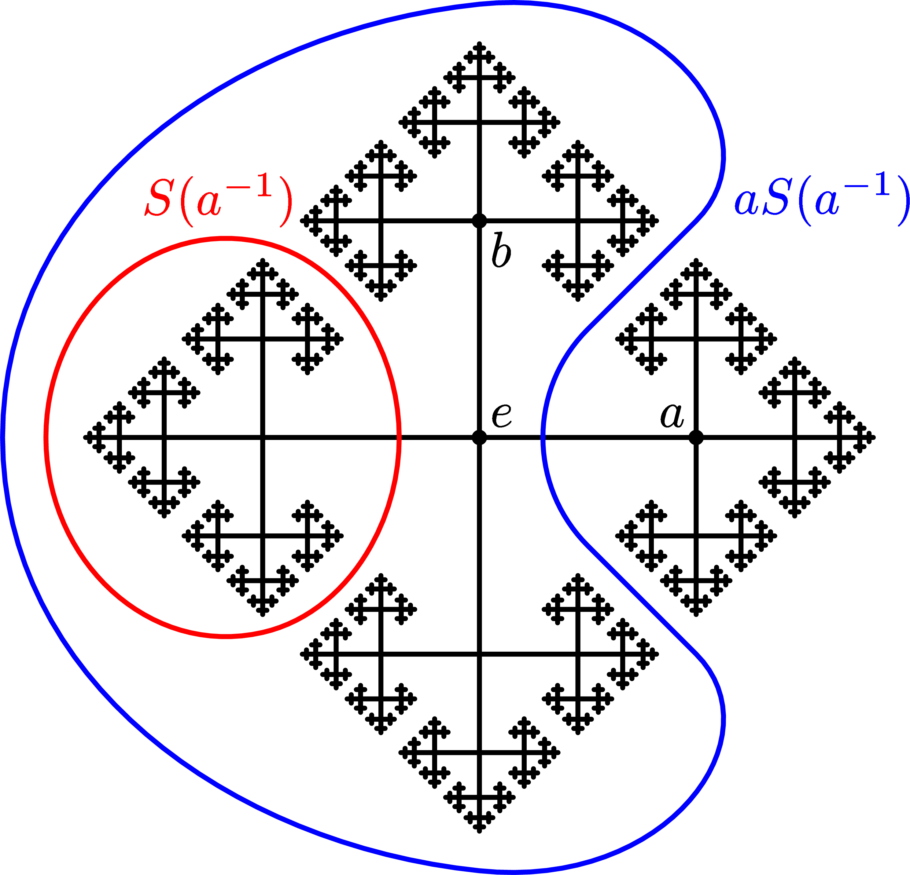 Illustration for the paradoxical decomposition of F 2 {\displaystyle F_{2 used in the proof of the Banach-Tarski paradox.